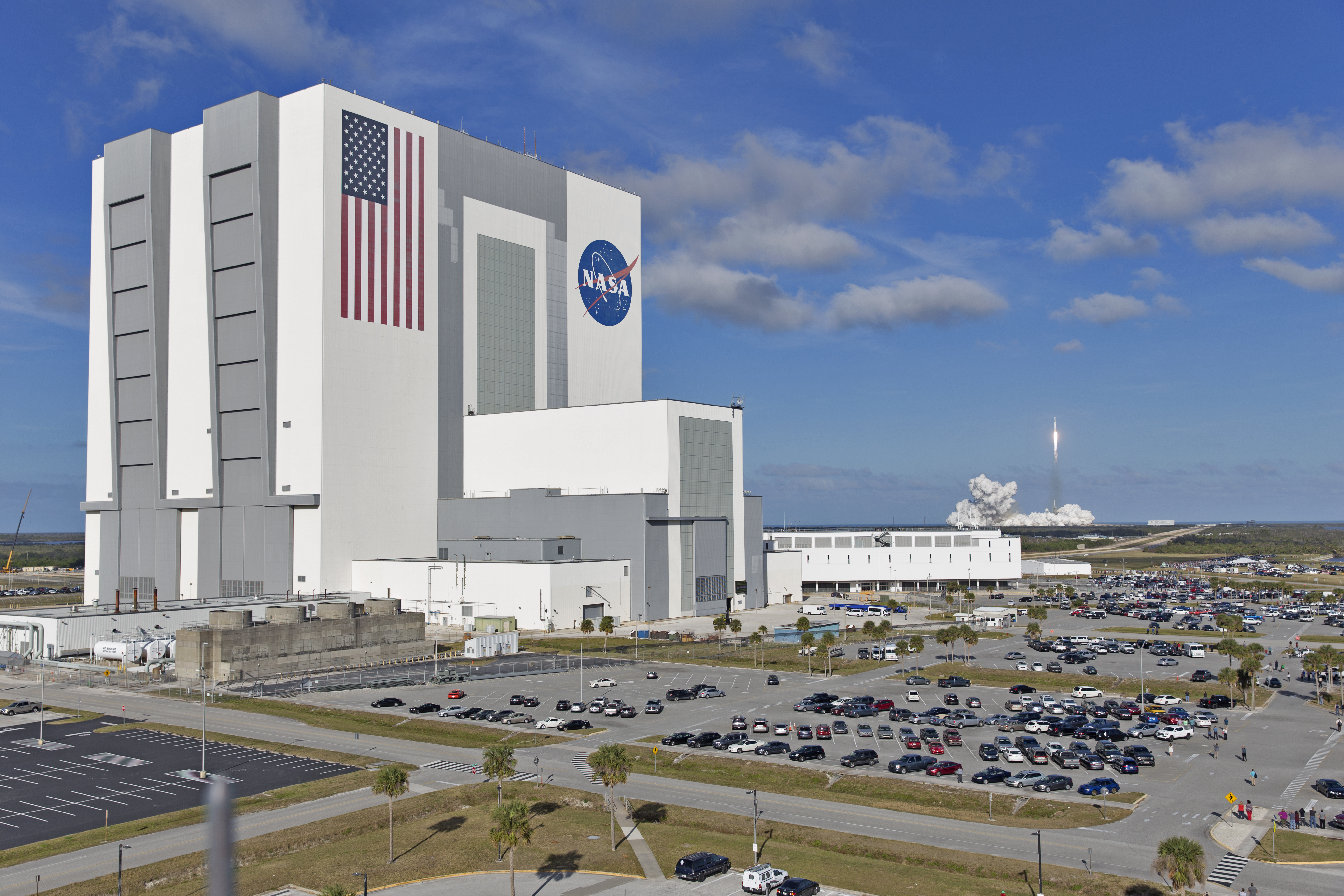 A SpaceX Falcon Heavy rocket begins its demonstration flight with liftoff at 3:45 p.m. EST from from Launch Complex 39A at NASA's Kennedy Space Center in Florida. This is a significant milestone for the world's premier multi-user spaceport. In 2014, NASA signed a property agreement with SpaceX for the use and operation of the center's pad 39A, where the company has launched Falcon 9 rockets and prepared for the first Falcon Heavy. NASA also has Space Act Agreements in place with partners, such as SpaceX, to provide services needed to process and launch rockets and spacecraft.